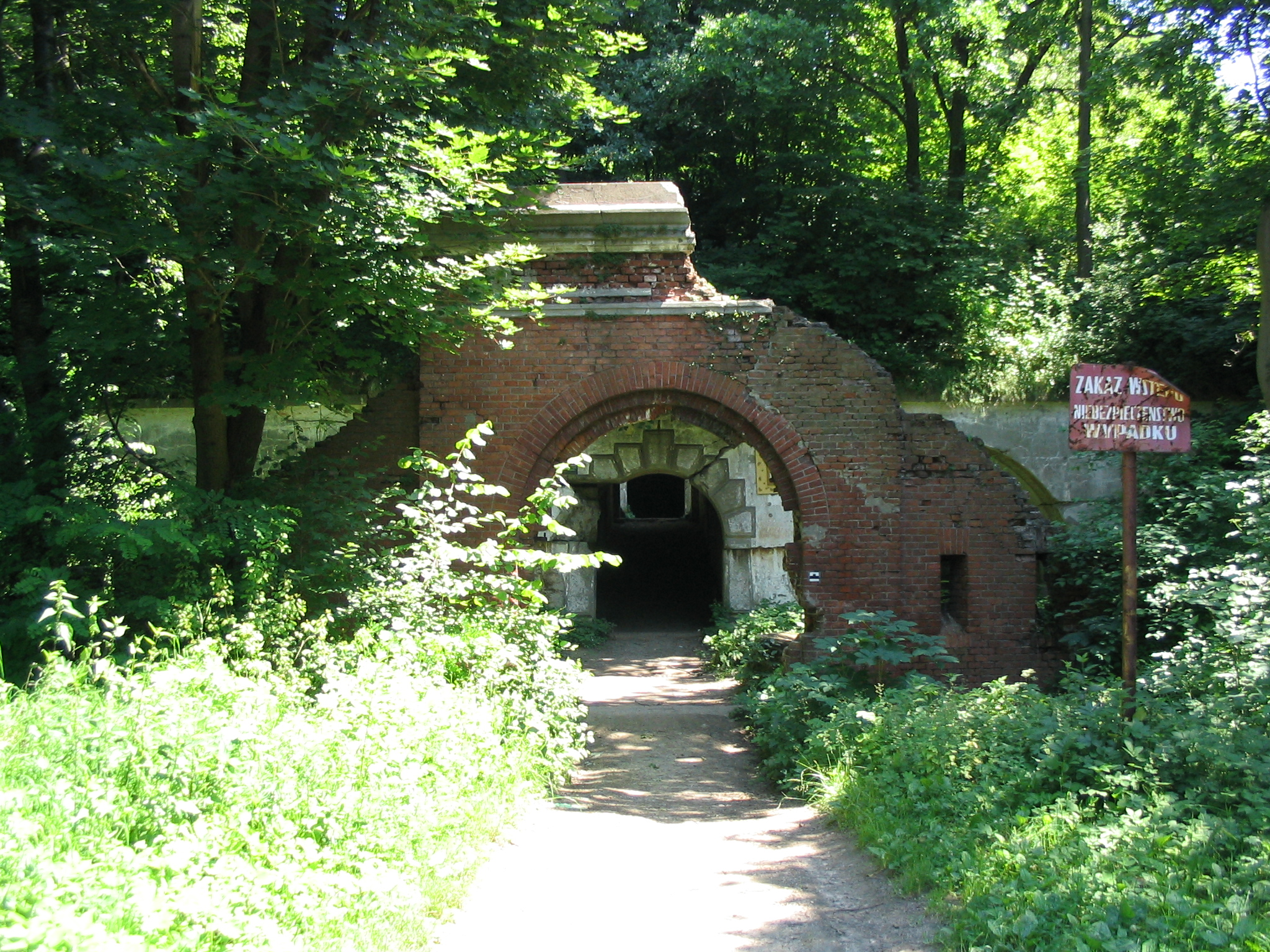 Fort I "Salis Soglio" Author: Goku122